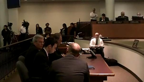 Nassau County Comptroller George Maragos testifies before the Nassau County Legislature on the privatization of LI Bus in 2011.